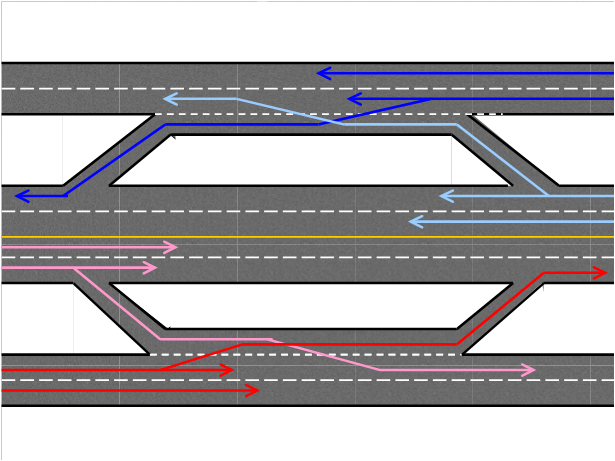 This diagram shows the shape and flow of traffic in a Frontage Road Interchange.